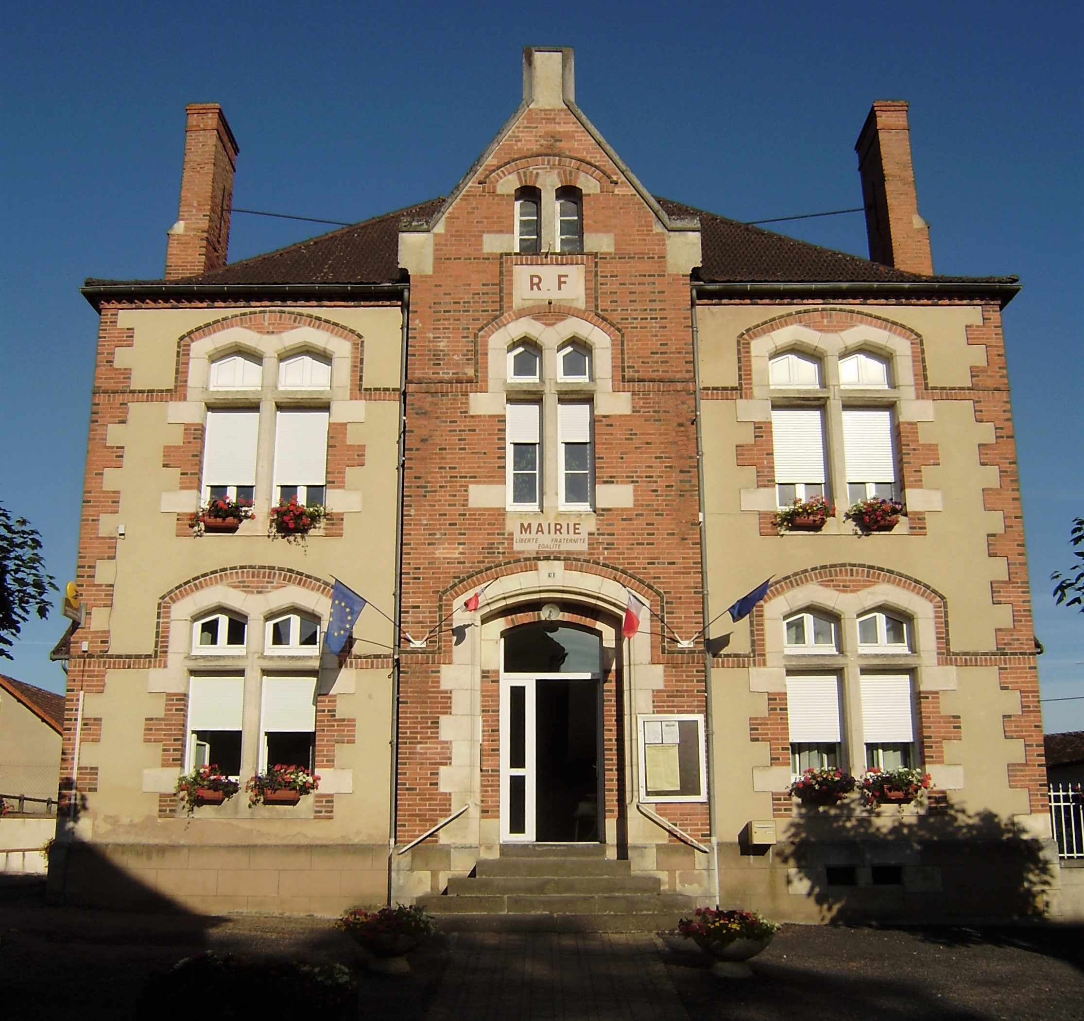 MAIRIE DE SAINT-LEON